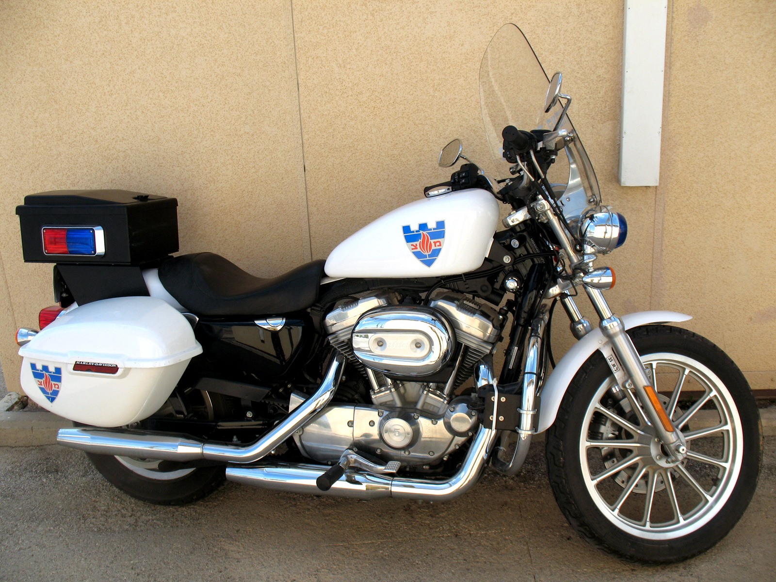 Harley-Davidson motorcycle in use by the Israel Defense Forces Military Police Corps.